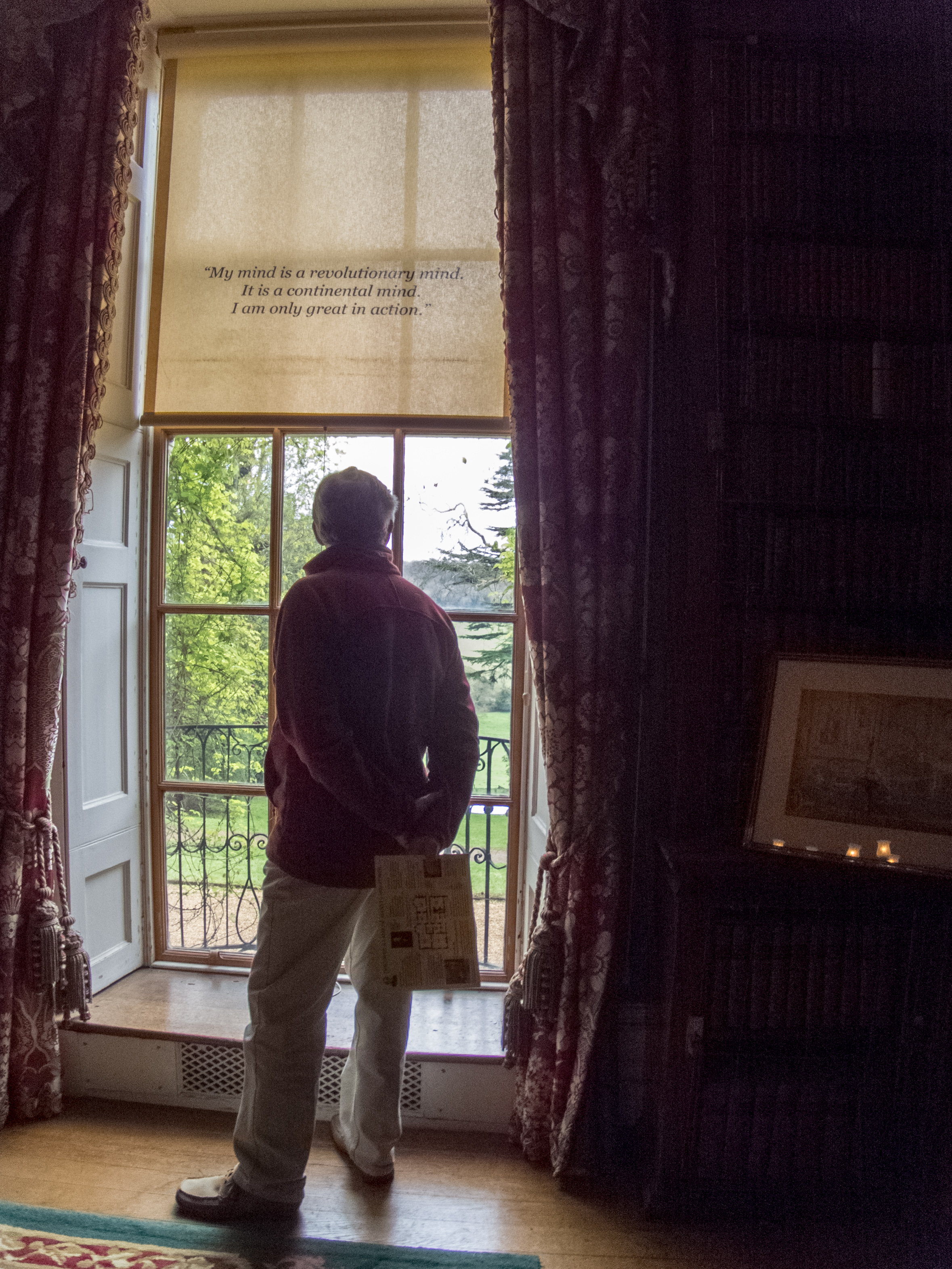 Standing at a window in Hughenden Manor, Buckinghamshire